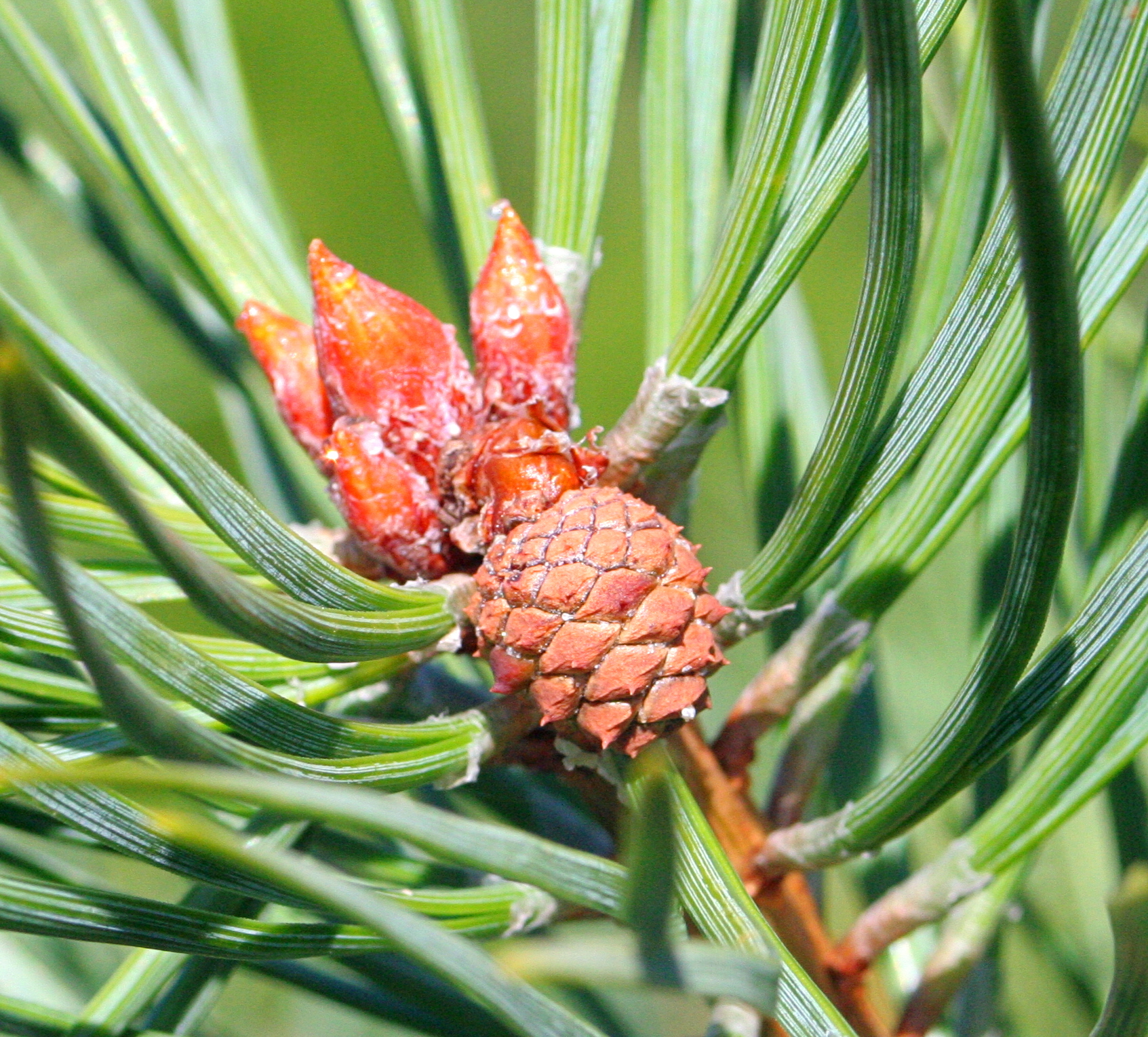 Pinus sylvestris conelet, Dornoch, Scotland, 57°53'05"N, 4°1'28"W